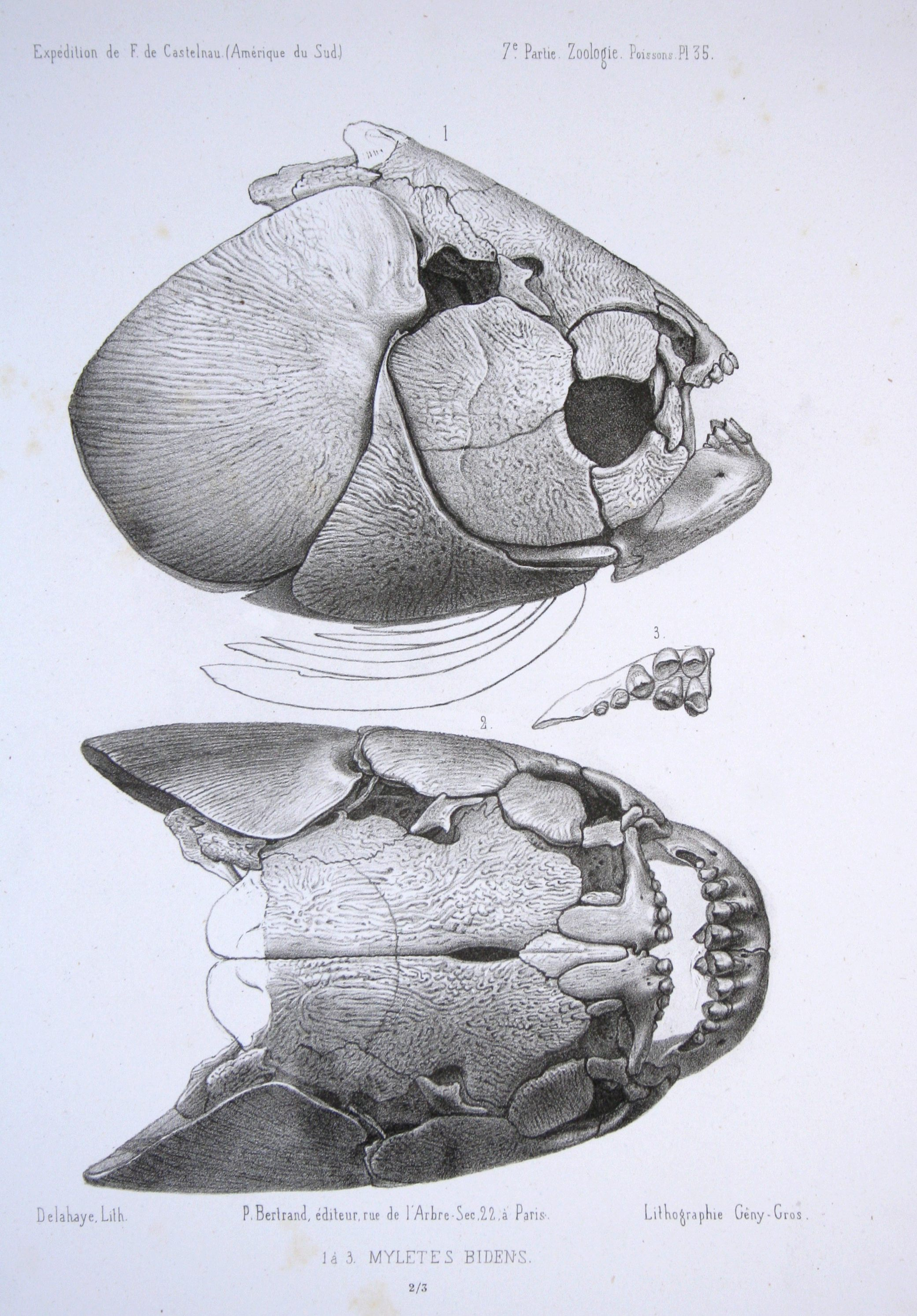 Myletes bidens = Piaractus brachypomus Skull from side Skull from above Left mandible from back